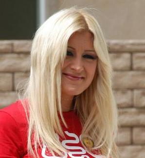 American pornographic actress Stacy Thorn